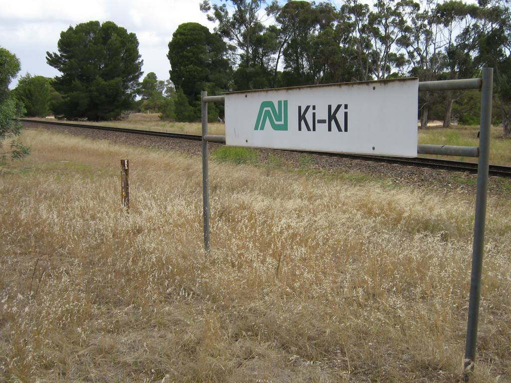 Site of the former Ki Ki railway station